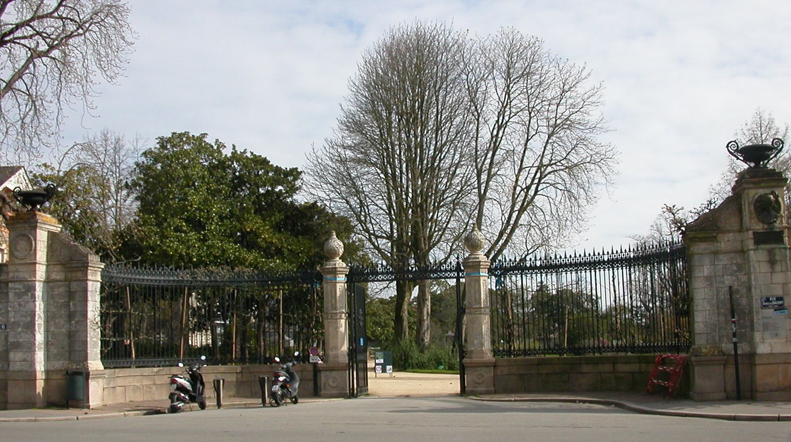 Main entrance of the Jardin des plantes in Nantes